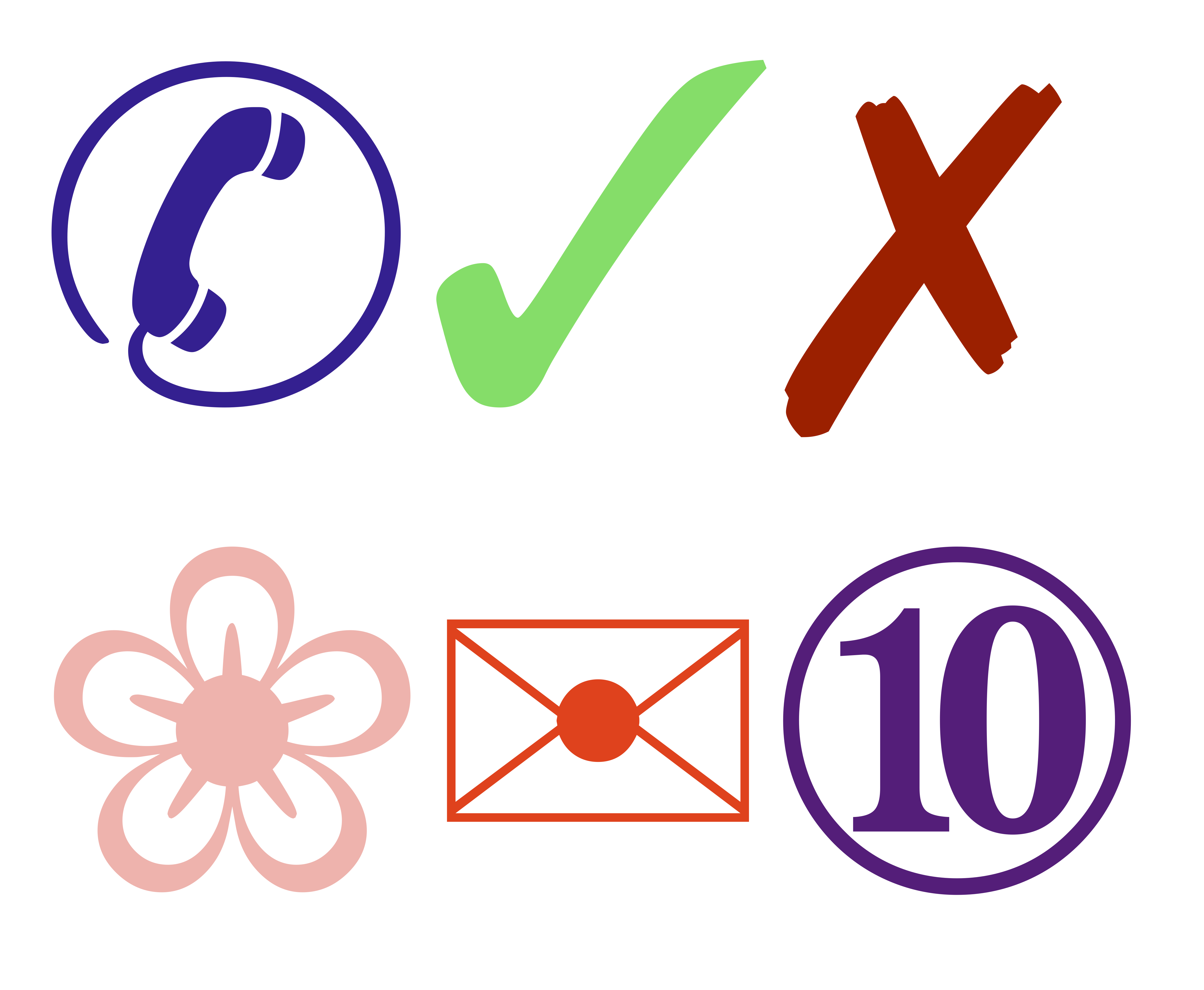 Examples of dingbat fonts, which could be used in documents such as tourist guides or TV listings. Taken from Zapf Dingbats